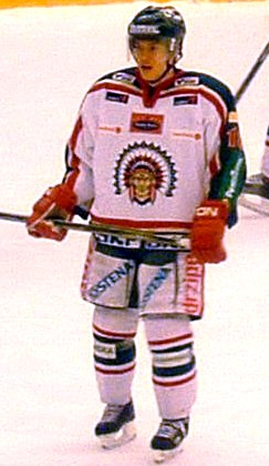 Ice hockey player Steve Kariya of Frölunda HC in E.ON Arena, Timrå, Sweden during the Swedish Elite League game Timrå IK-Frölunda HC 4-1.